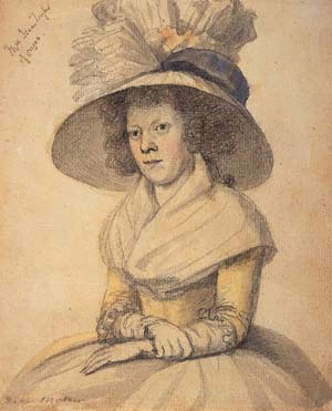 Ann Taylor or Ann Martin (20 June, 1757 – 27 May, 1830) was a British female writer. Her children were also notable writers and this included Ann and Jane Taylor.